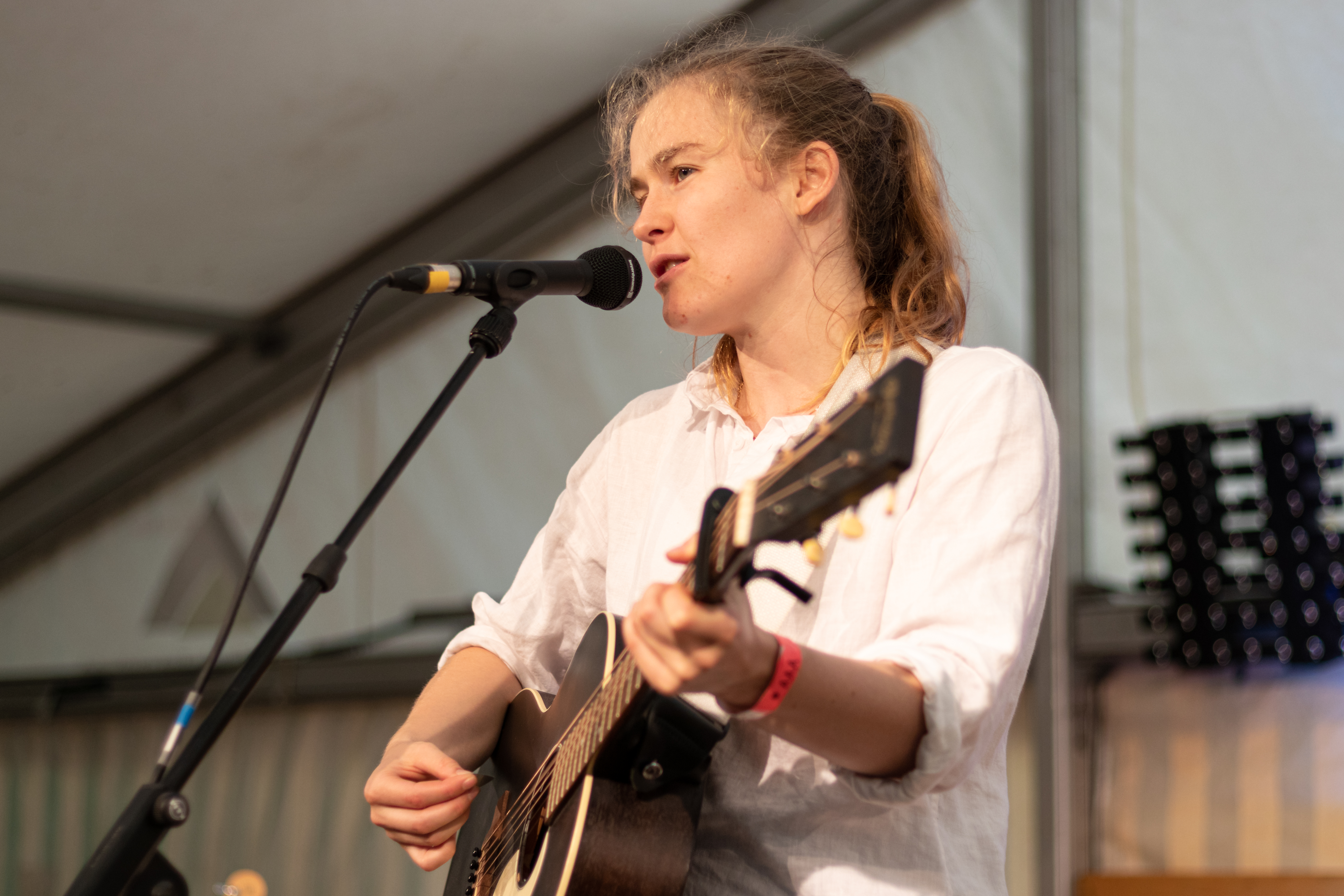 Alex the Astronaut in the Niederrheintent at Haldern Pop Festival 2019.